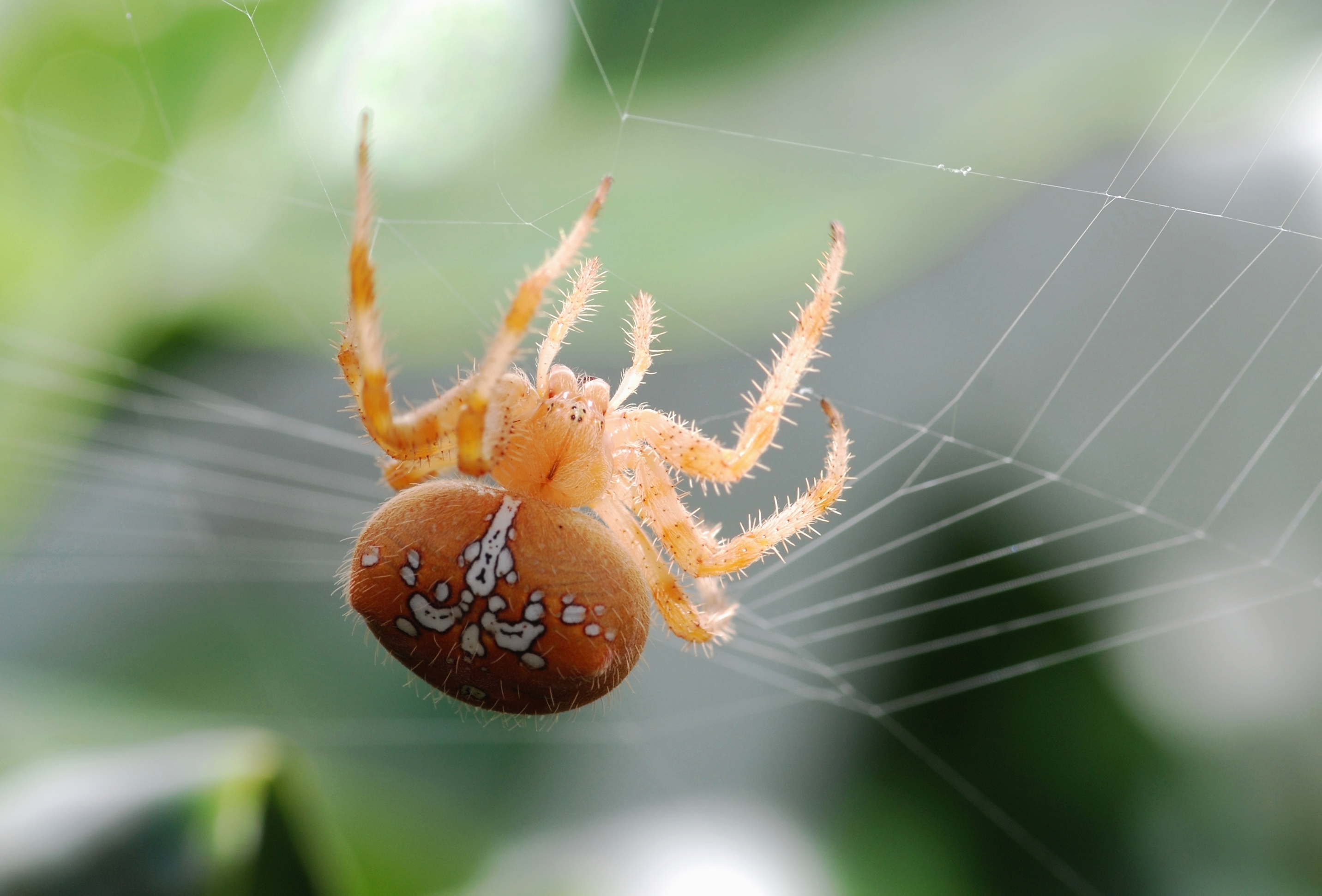 Garden Spider, female (Araneus pallidus)